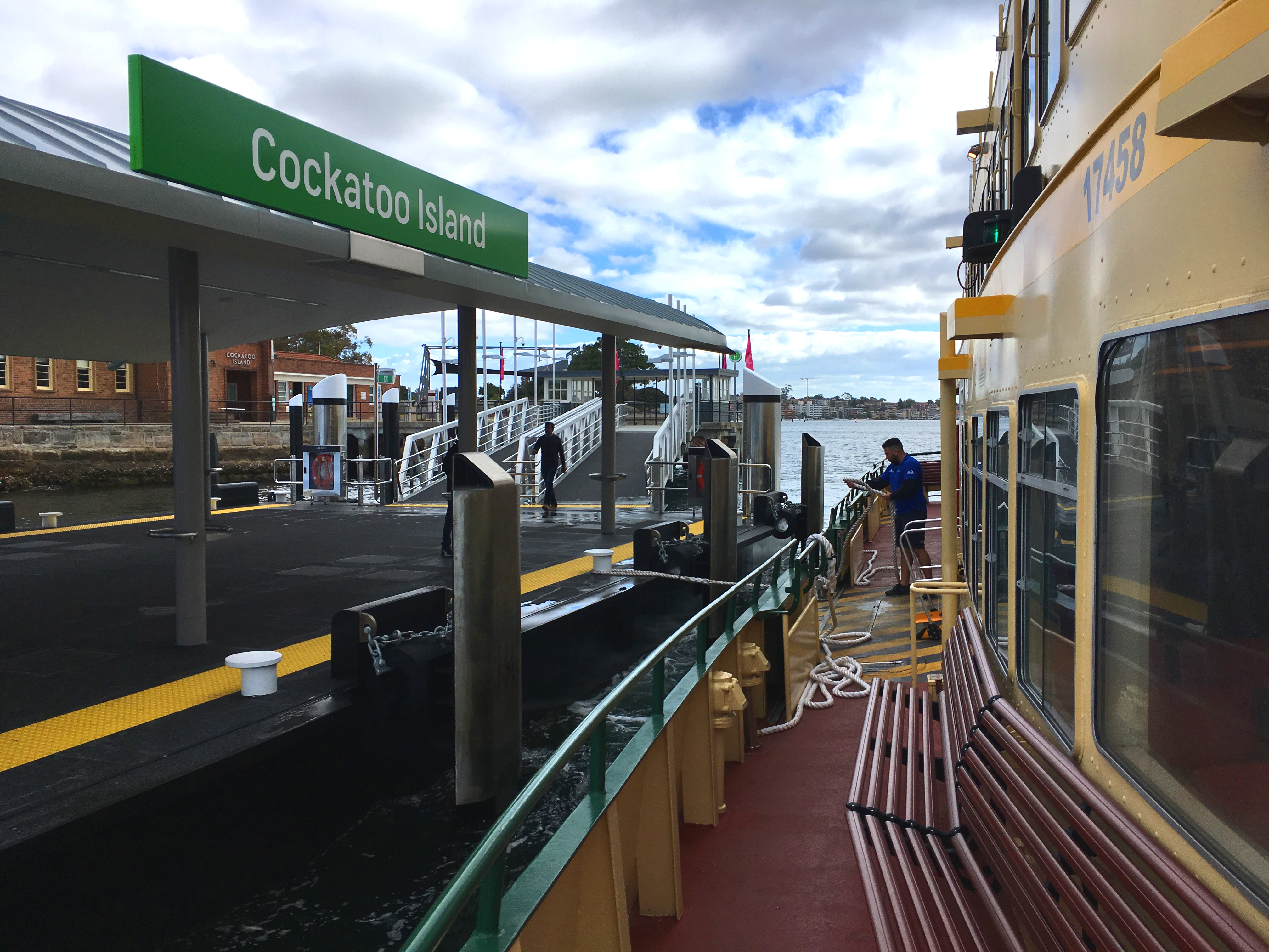 View aboard the starboard side of the MV Friendship, as it berths with the Cockatoo Island ferry wharf, during a run on the F3 Parramatta River service. This phtoograph was taken on the first Sunday of the redeveloped Cockatoo island wharf, which opened on 18 August 2017. The wharf, near identical in design to other recently-redeveloped wharves of the 2010s in Sydney Harbour, it finally brought adequate shelter for passengers on the pontoon.